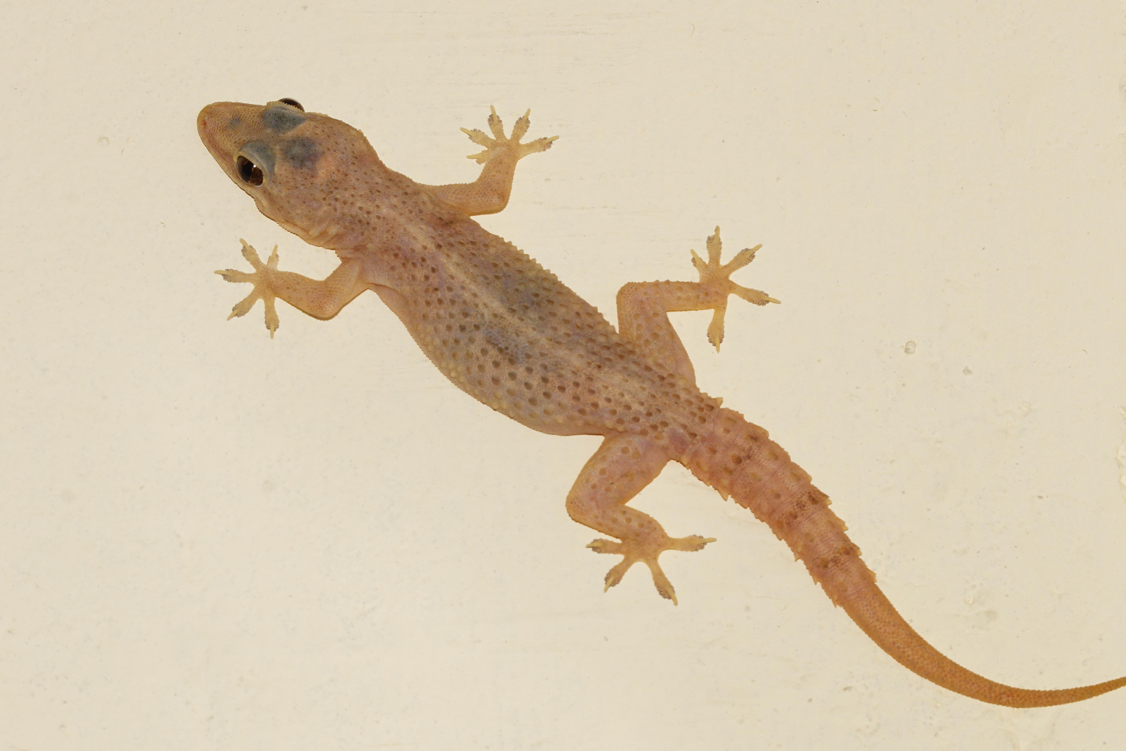 Lizard